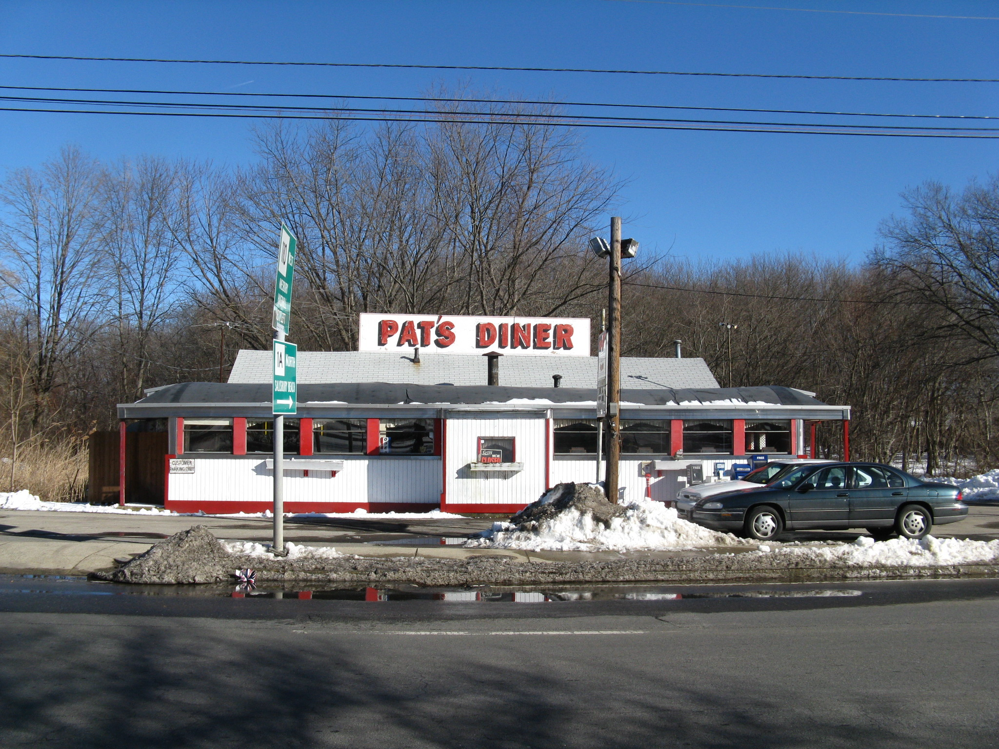 Pat's Diner, Formerly Ann's Diner, Salisbury Massachusetts